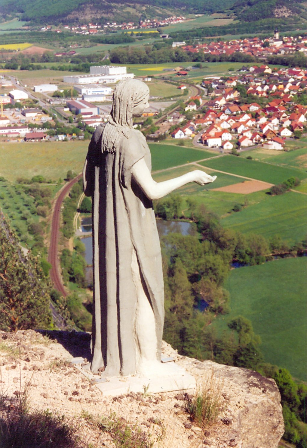 Amalberga statue at Hammelburg (Bavaria, Germany)